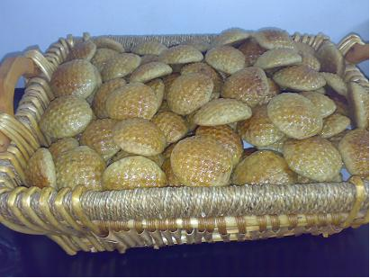 Kleeja, the traditionl Qassimi (Al Qassim, Saudi Arabia) food.